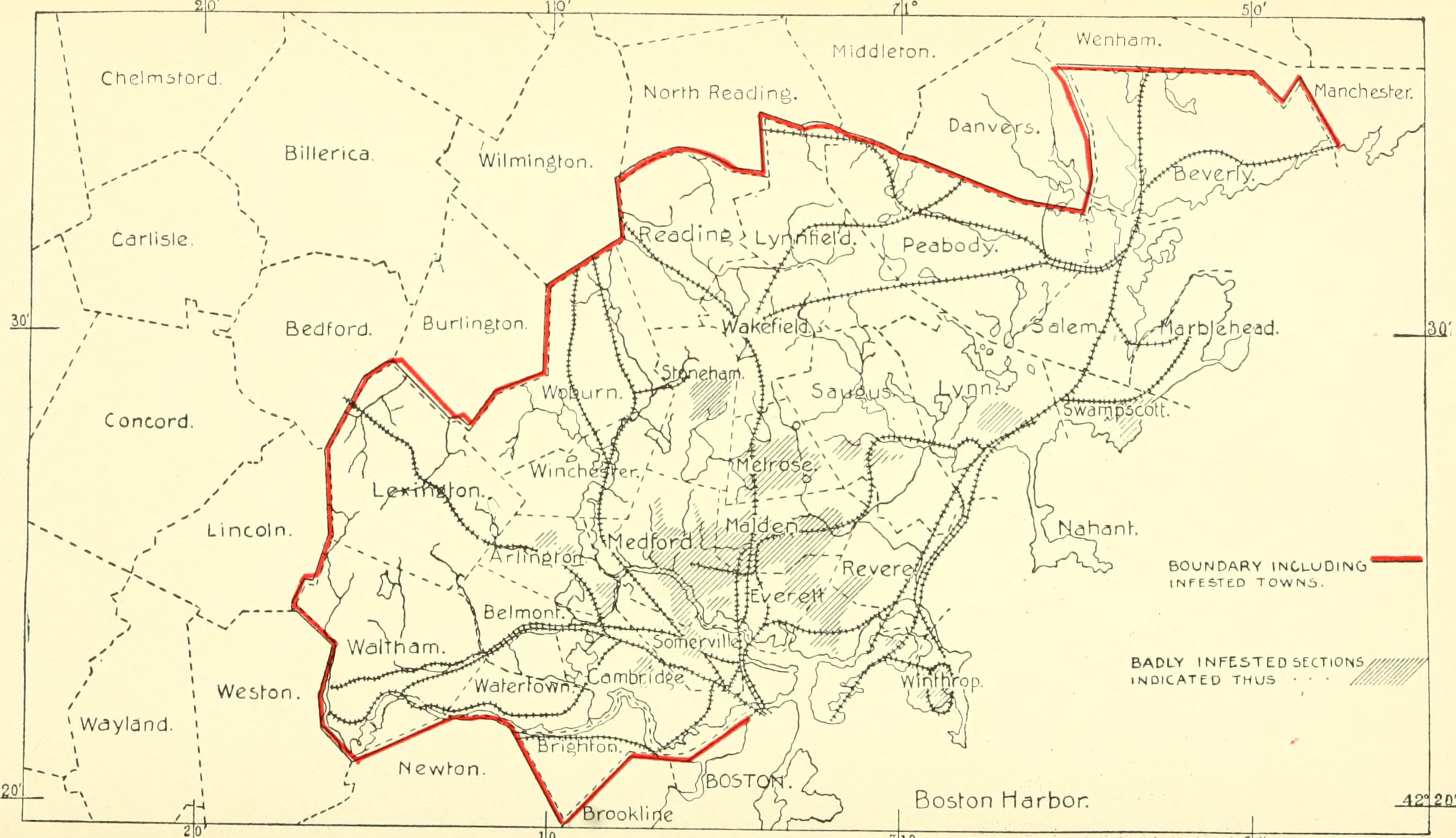 Title: Bulletin Year: 1888 (1880s) Authors: Hatch Experiment Station Subjects: Agriculture Fertilizers Publisher: (S.l. : s.n.) Text Appearing Before Image: Drawn by Josepk Bridgham. Helioiype Printing Co.. GYPSY MOTH. EXPLANATION OF PLATE I. GYPSY MOTH (Ocneria dispar L) jTig, 1.—Female with the wings sjyread.2.—Female with the wings folded.3.—Male with the wings spread.4.—Male with the wings folded.5.—Pupa.6.—Caterpillar, Full grown.7.—Caterpillar, 8.— Cluster of eggs on bark. 9.—Several eggs enlarged. 10.—One egg greatly enlarges Text Appearing After Image: Q « Z 5 3 - O Ll i Z S O 5 LU .2 Division of Entomology. C. H. Fernald. THE GYPSY MOTH.Ocneria dispar, L. This insect was introduced into this country about the year 1868,by Mr. L. Trouvelot, now residing in Paris, France, but then livingnear Glenwood, Medford, where he attempted some experiments inraising silk from our native silkworms. I was informed that Mr.Trouvelot brought a cluster of gypsy moth eggs from Europe, and,having opened the box, took out the eggs and laid them on the sillof an open window, when the wind blew them out and he was notable to find them. Distribution. From this center they have now been distributed more or lessabundantly in twenty-nine cities and towns in the eastern part ofMassachusetts, as published in the report of Mr. E. H. Forbush,Field Director in charge of the work of destroying this moth. Seemap. I am under great obligations to Mr. Forbush for permission to usesuch of his field notes as I desire, and also to the Gypsy moth Com-mittee for permissio